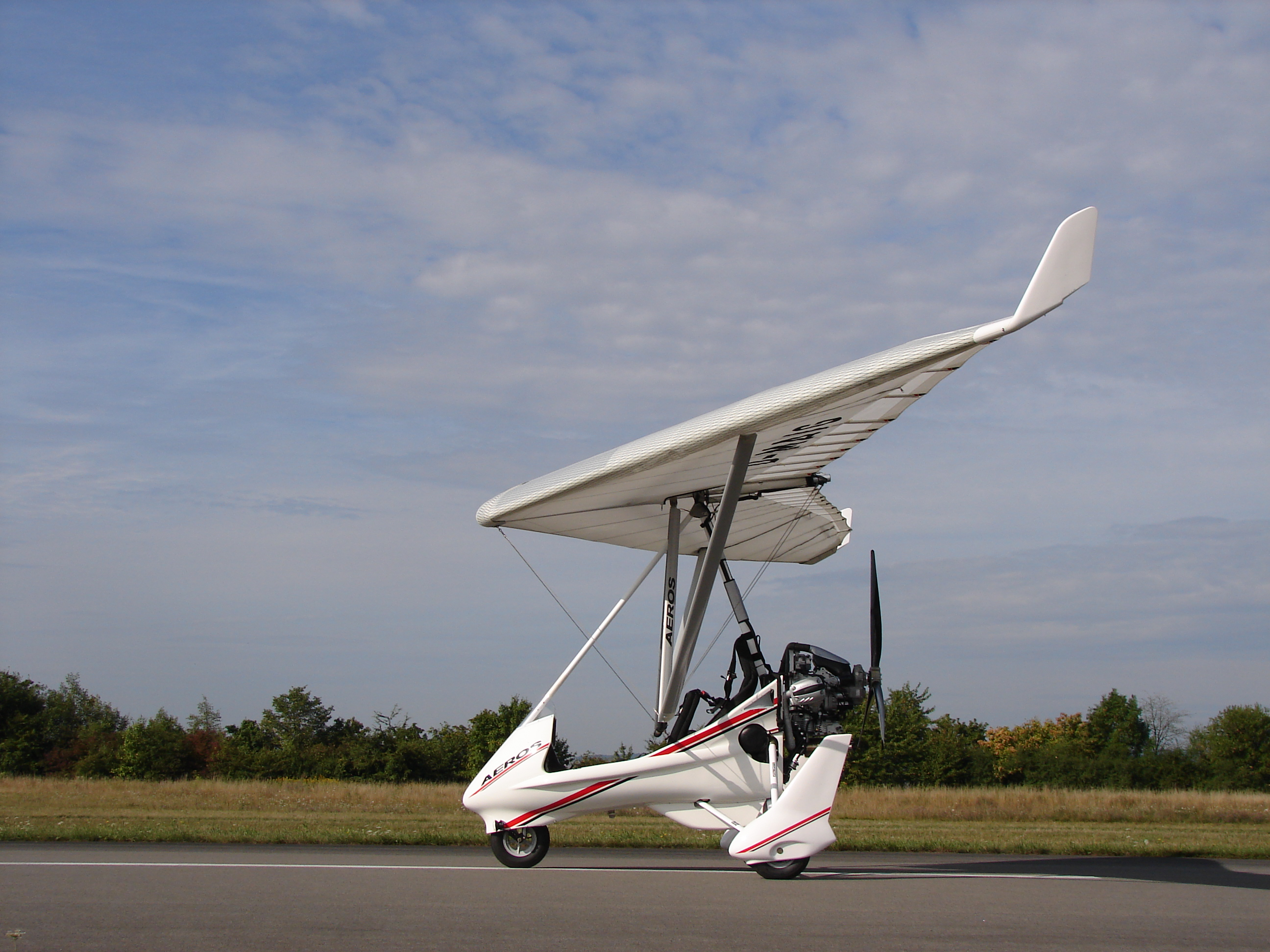 AEROS 2 Trike with BMW engine company AirTrike